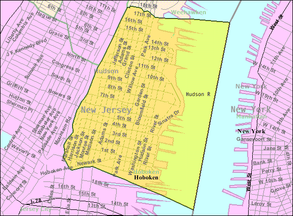 Census Bureau map of Hoboken